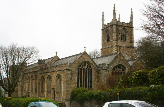 St Petroc's parish church, Bodmin, Cornwall, seen from the southeast